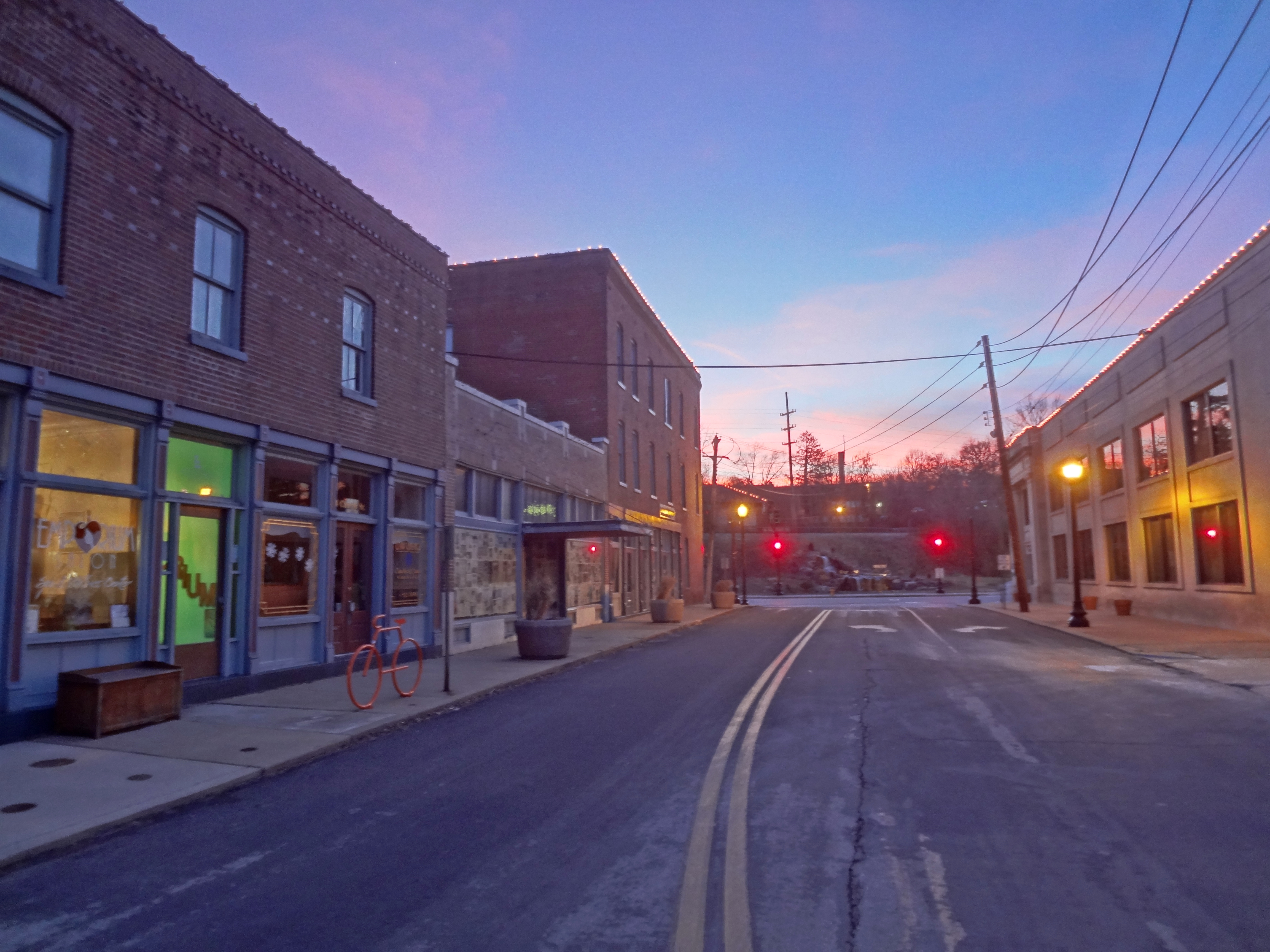 Church Street, Ferguson, Missouri.